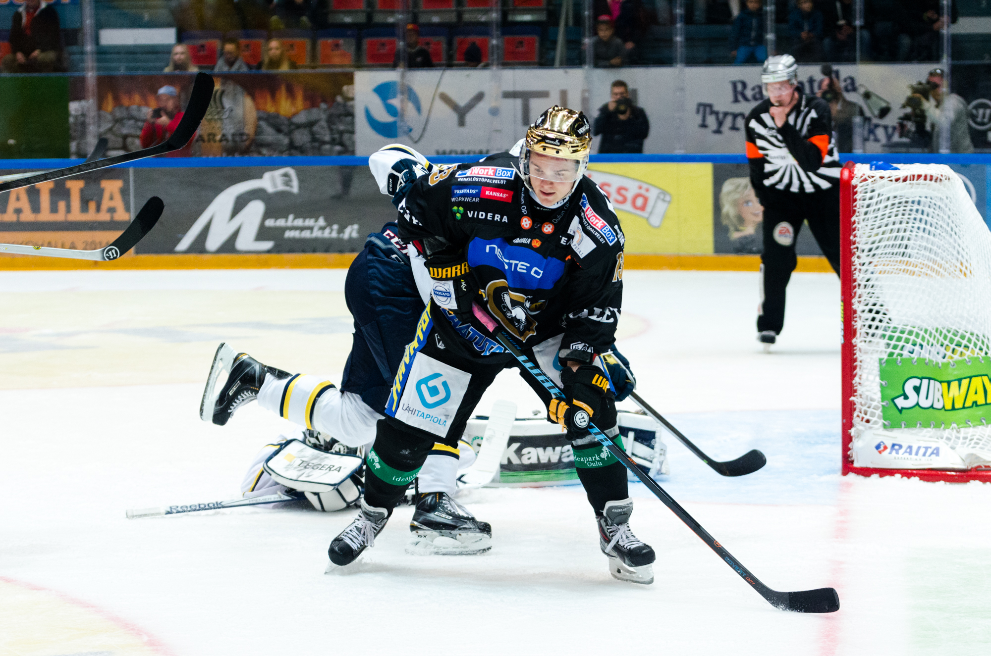 Julius Junttila on 20th of September 2014 in Kärpät - Blues match.